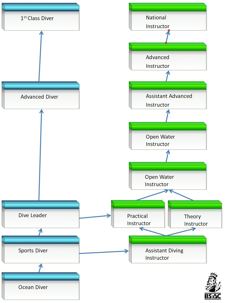 BSAC Diving and Instructor Grades